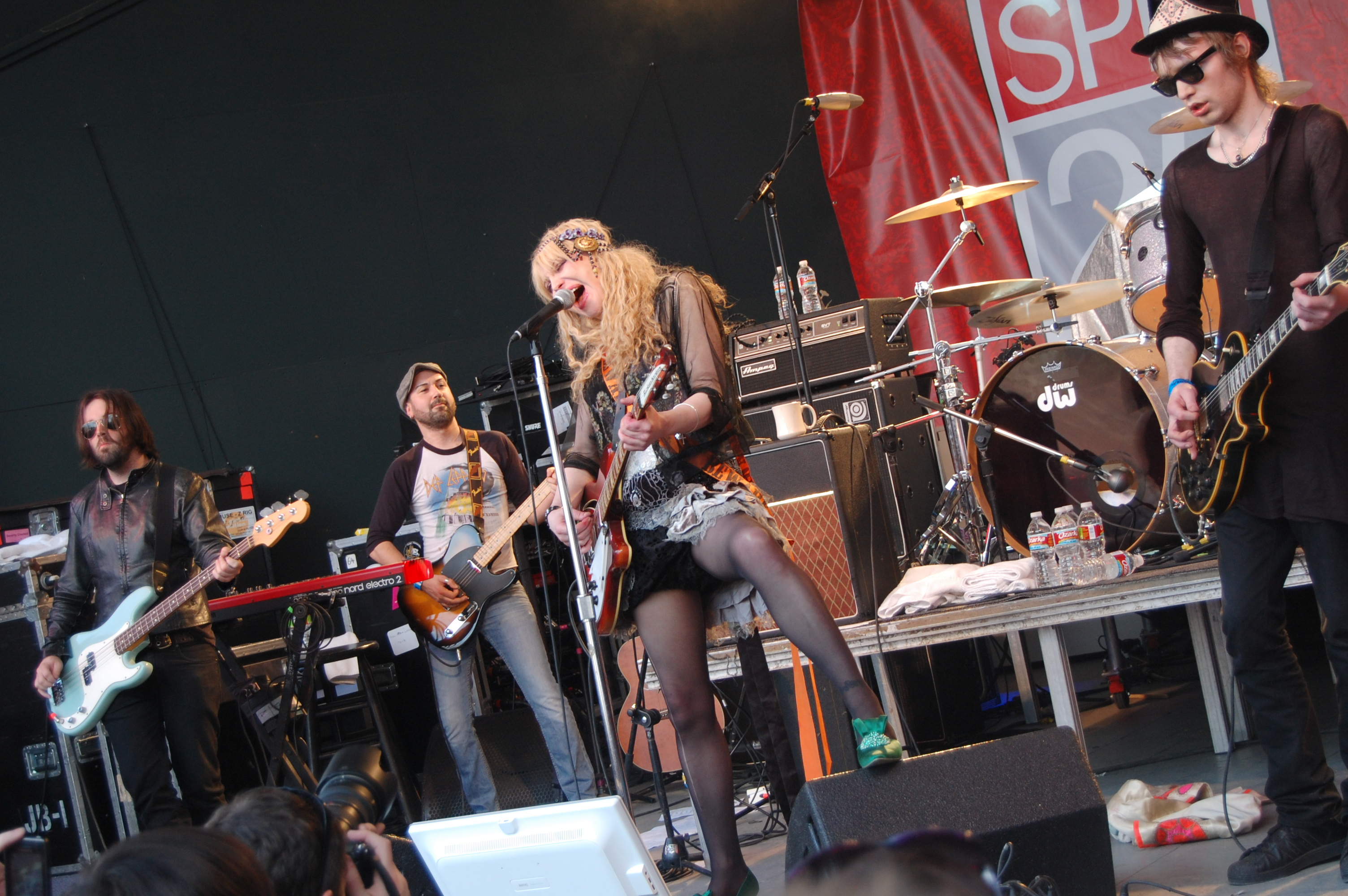 A photograph of the band HOLE playing a concert at the SXSW festival in Austin TX on March 17th 2010